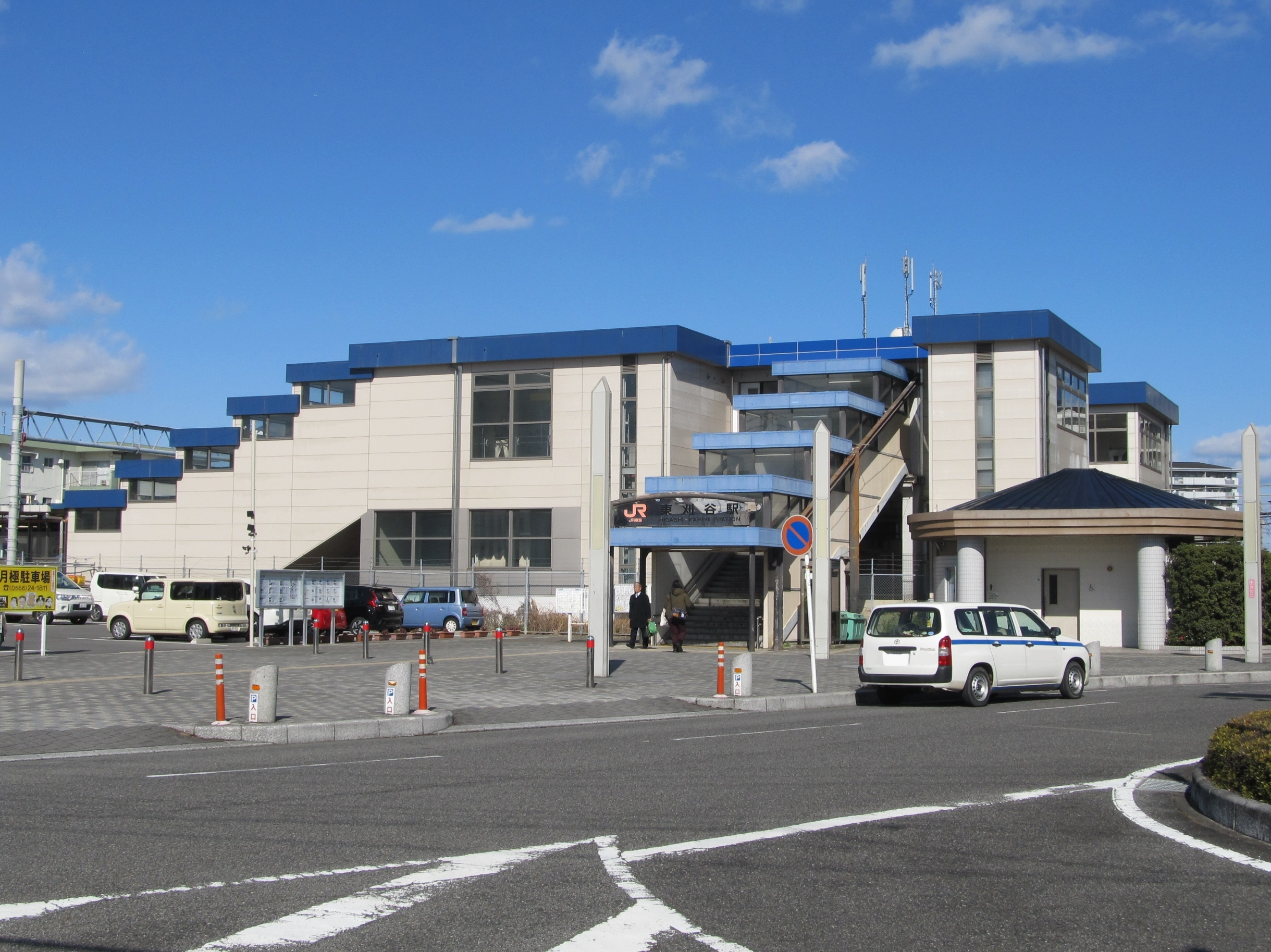 Central Japan Railway Tōkaidō Main Line Higashi-kariya Station South Gate